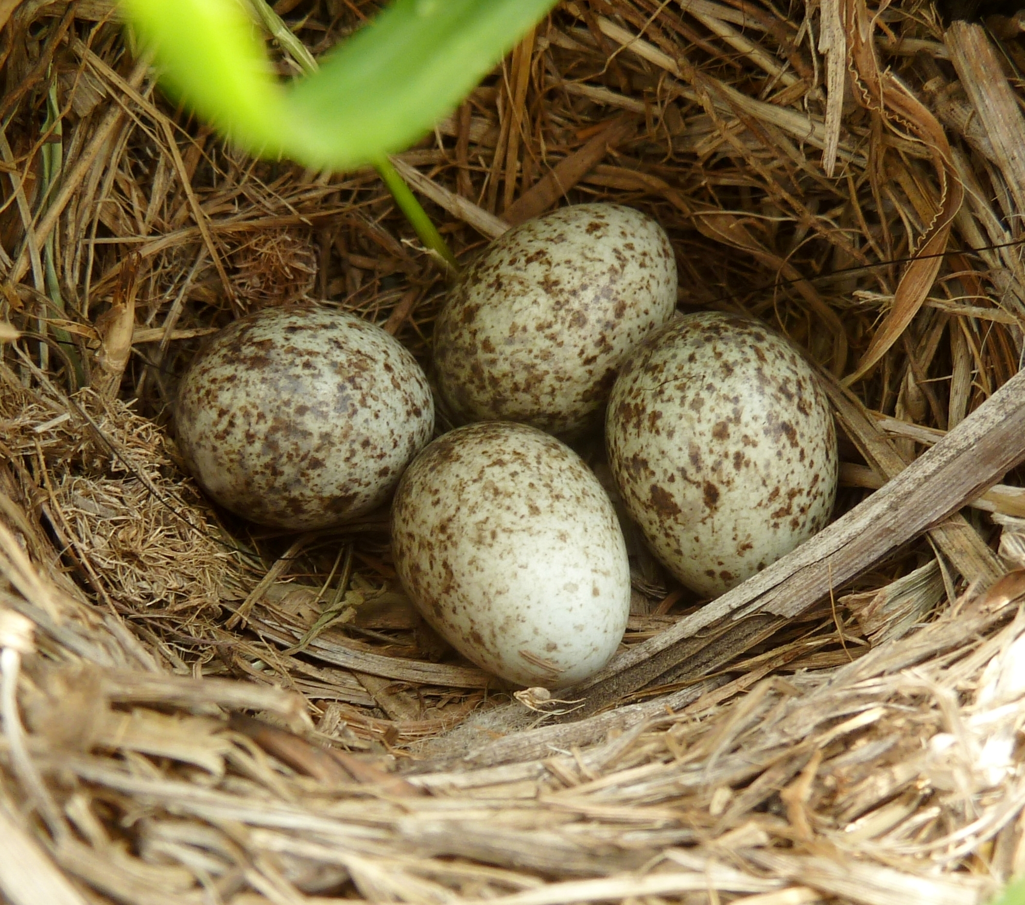 Nest of a Grassveld pipit at Zoutpan near Pretoria. The nest was placed at the shaded base of a green grass tussock, facing east, on a well-grazed and level floodplain. The bird escaped from the nest as we came very near, and acted out an elaborate terrestrial distraction display, before it rose into the air and gave the typical Grassveld pipit song.